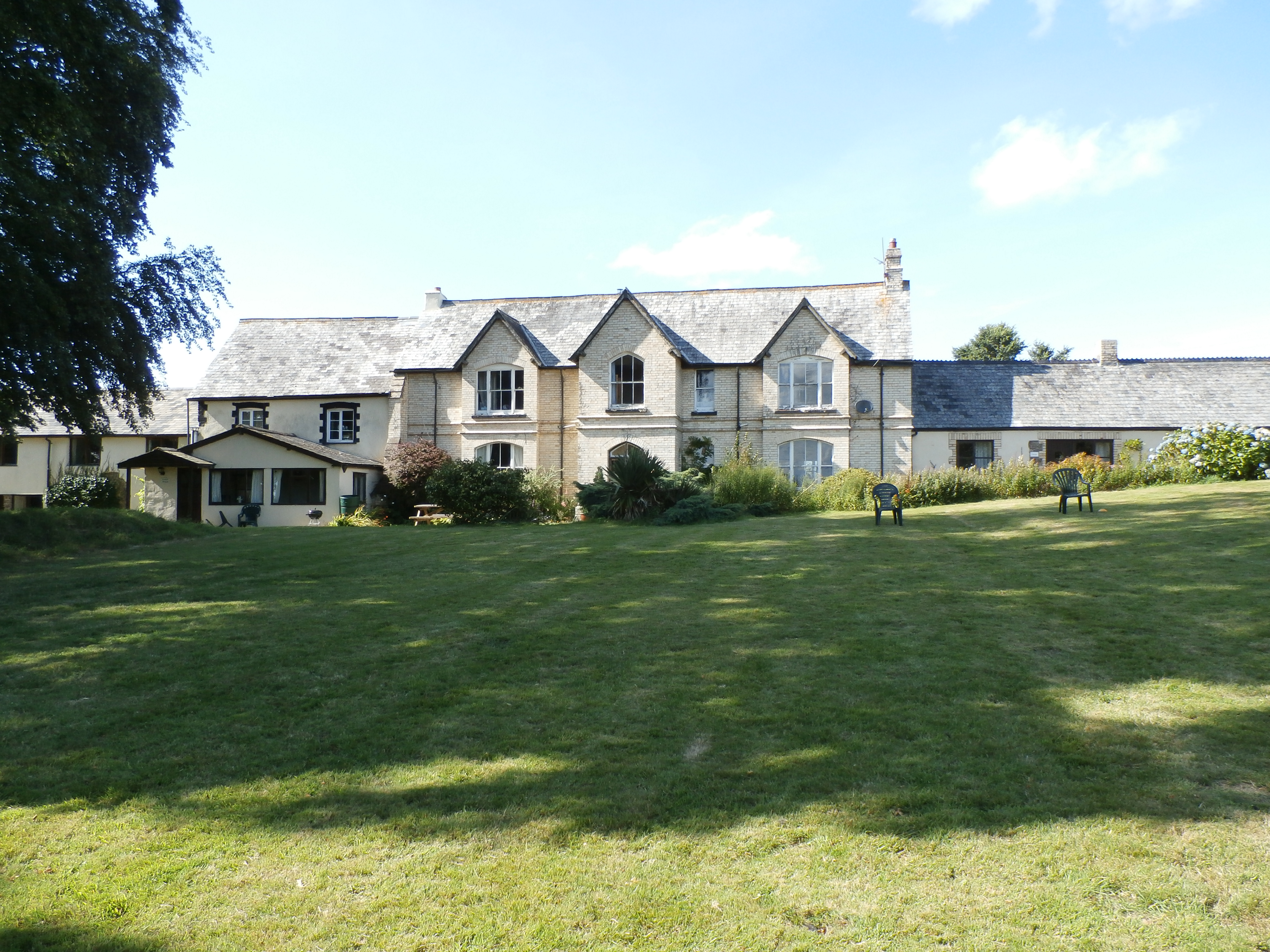 Speccot Barton, Merton, Devon, rear elevation.